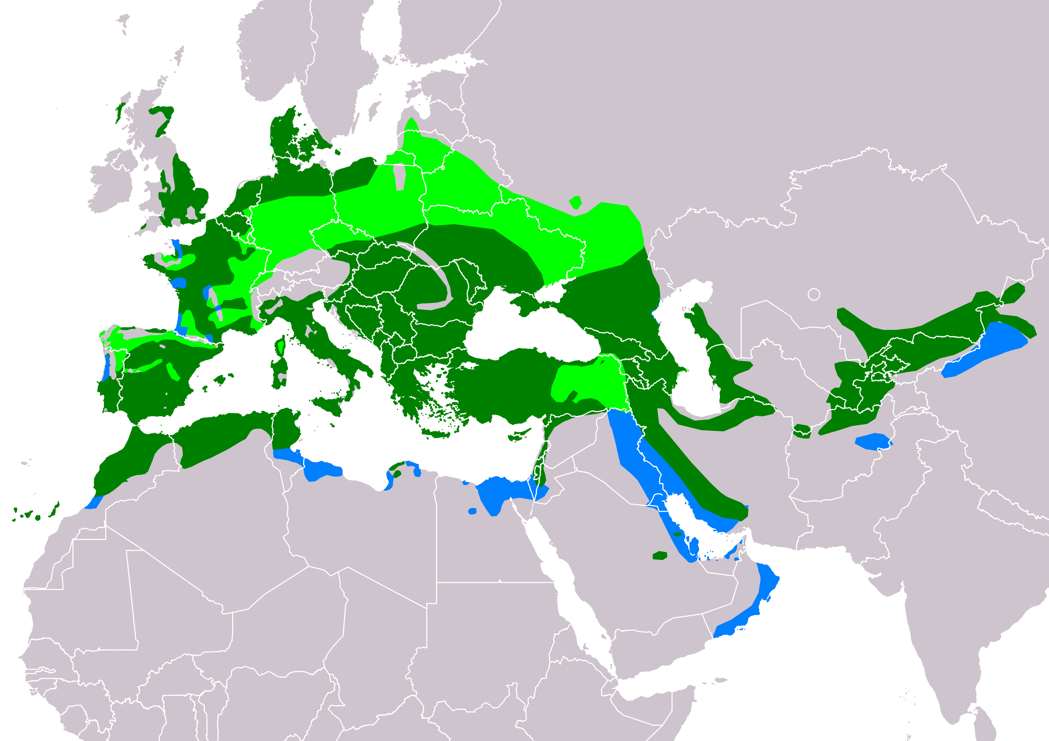 Map of corn bunting (Emberiza calandra) according to IUCN version 2018.2 , Legend: Extant, breeding (#00FF00), Extant, resident (#008000), Extant, non-breeding (#007FFF)